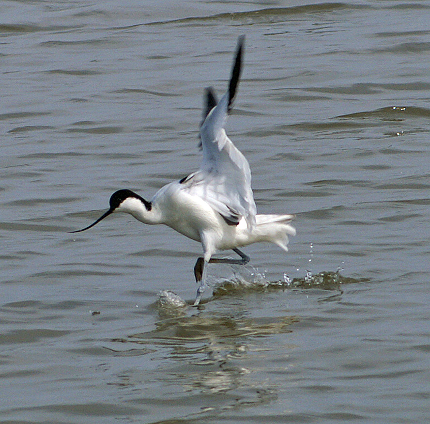 Avocet (Recurvirostra avosetta) at Titchwell Marsh, Norfolk, England.